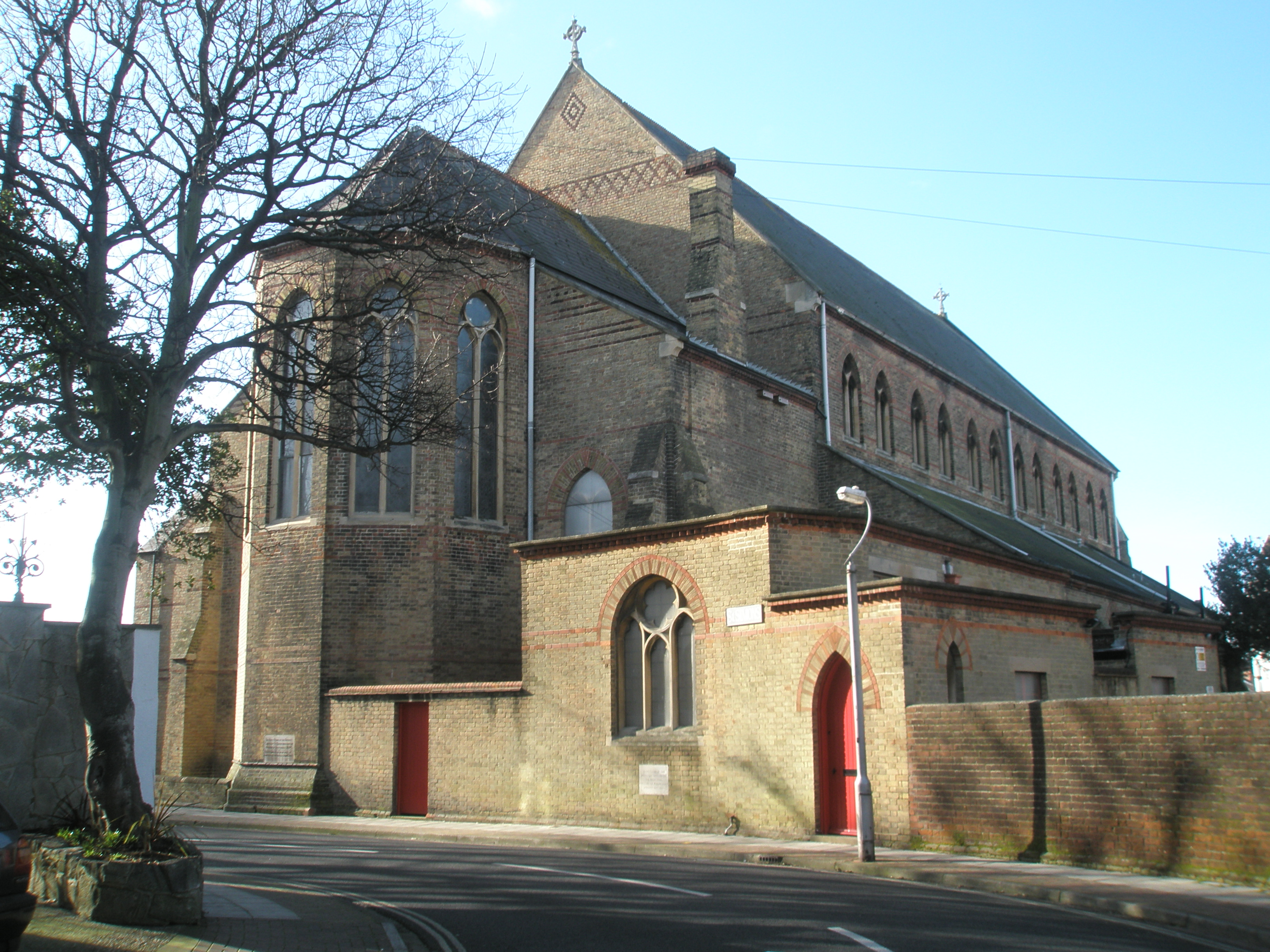 St Simon's parish church, Waverley Road, Southsea, Hampshire, seen from the northeast